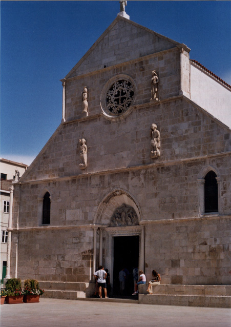 St. Mary's Basilica, Pag - Island of Pag, Croatia